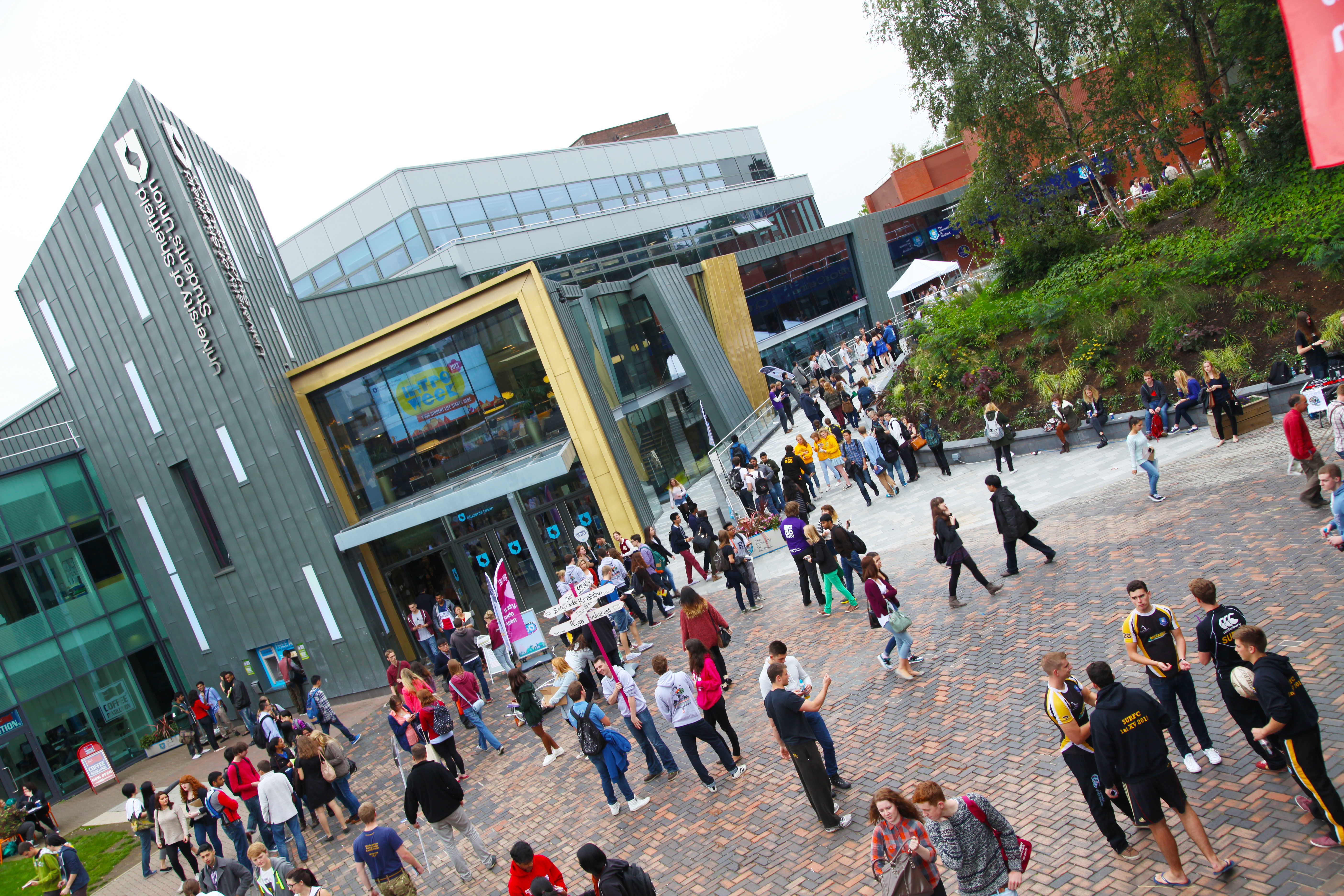 Concourse outside Sheffield Students' Union